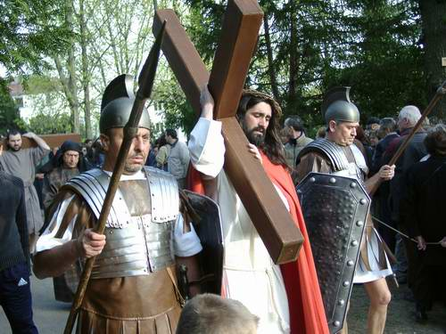 Religious procession on good Friday in Stuttgart-Bad Cannstatt, Germany